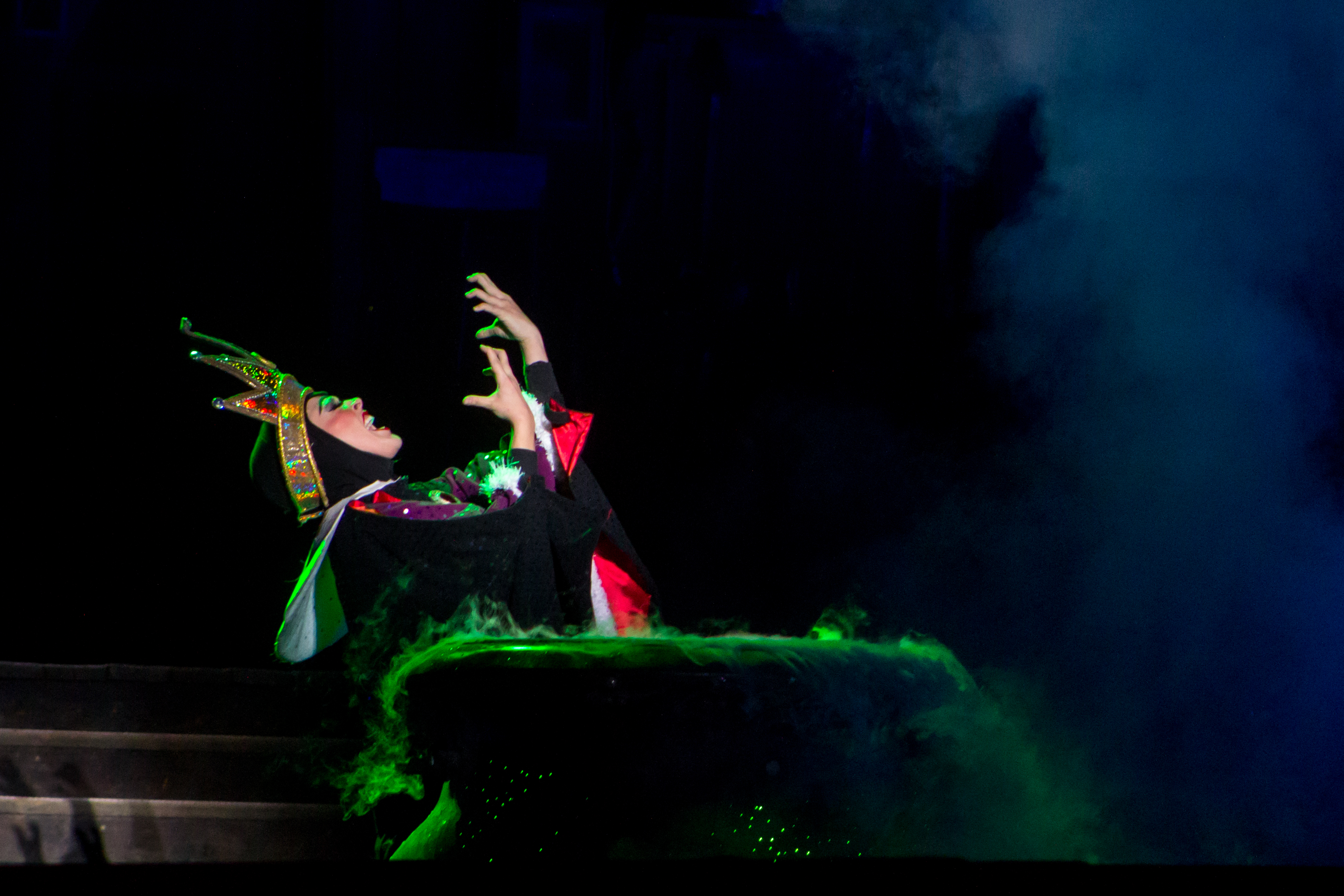 Part of Fantasmic as seen from the Rivers of America.